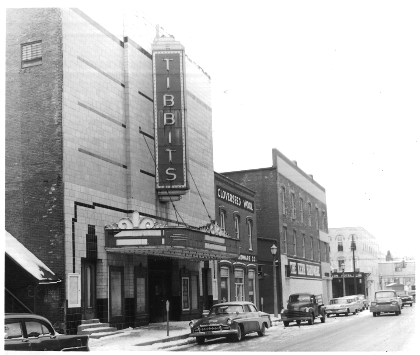 Picture of Tibbits Opera House's facade during the cinema era.